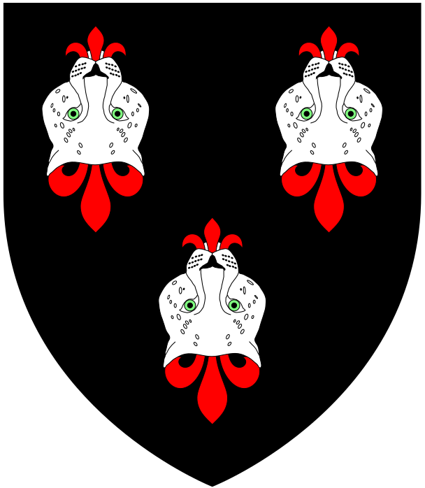 Arms of Woodforde of Ashby Folville, Leicestershire: Sable, three leopard's faces reversed argent jessant-de-lys gules. As seen in Ashby Folville Church (see[1]). These are a difference of the arms of Cantilupe "modern", whose feudal tanant at the manor of Brentingby was John Woodforde ( "John Woodford of Brentingby bore no arms before his journey to Melton Mowbray prior to 1316 and his subsequent purchase of the manor of Brentingby. Nichols notes a deed dated 6 Edward II (1312) on which the seal of John Neville at Brentingby is described as “in an escrutcheon, three fleurs-de-lis circumscribed”. He further records a deed dated 1215 relating to William de Canteloupe’s interests at Brentingby on which the seal is “three fleurs-de-lis circumscribed”, three fleurs-de-lis being the "ancient" arms of Cantilupe. The Hubard family of Ipsley, also tenants of Cantilupe, bore differenced arms of Cantilupe, as apparently did Denys of Siston, Gloucestershire.